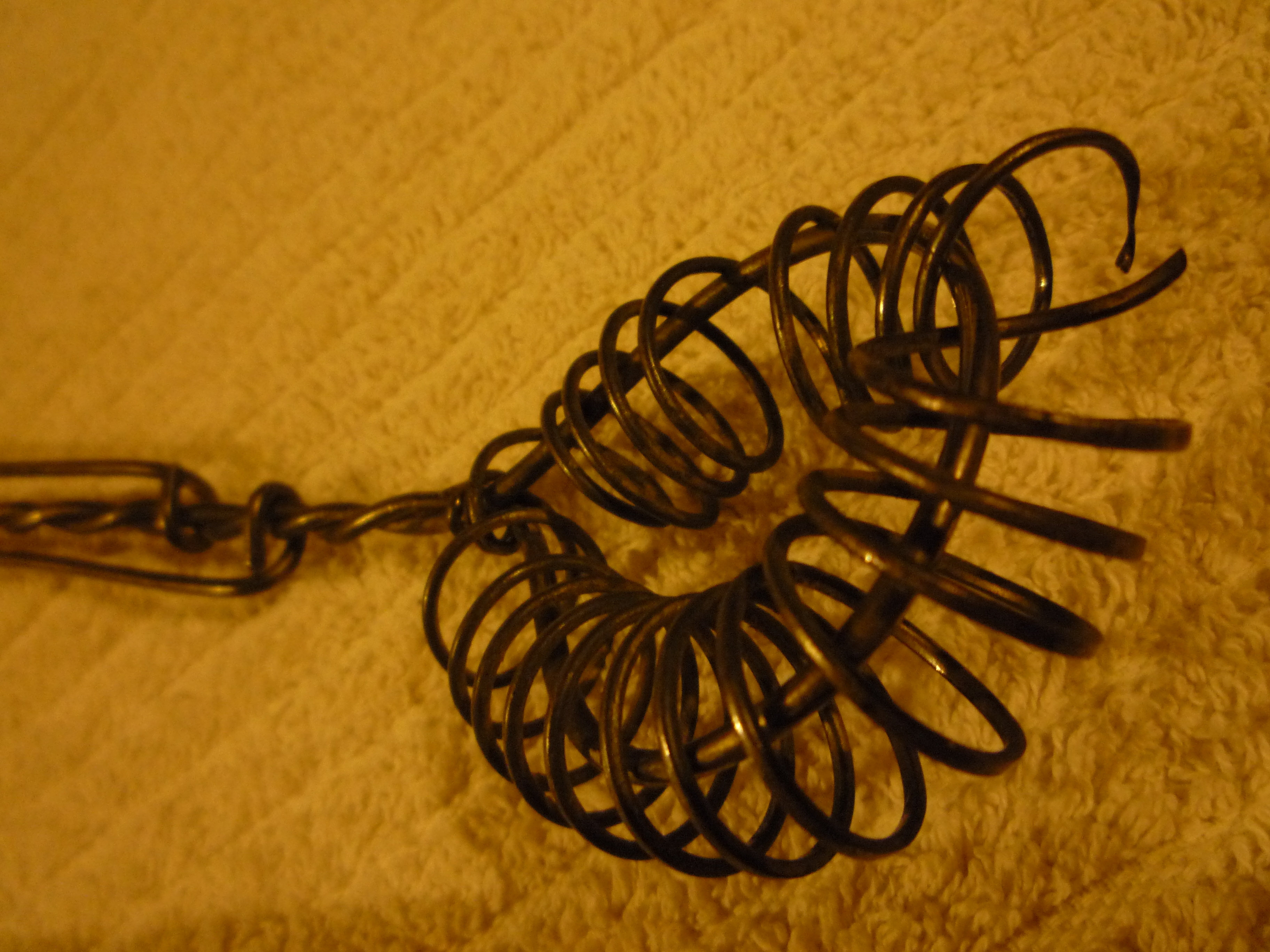 A pickelet whisk.